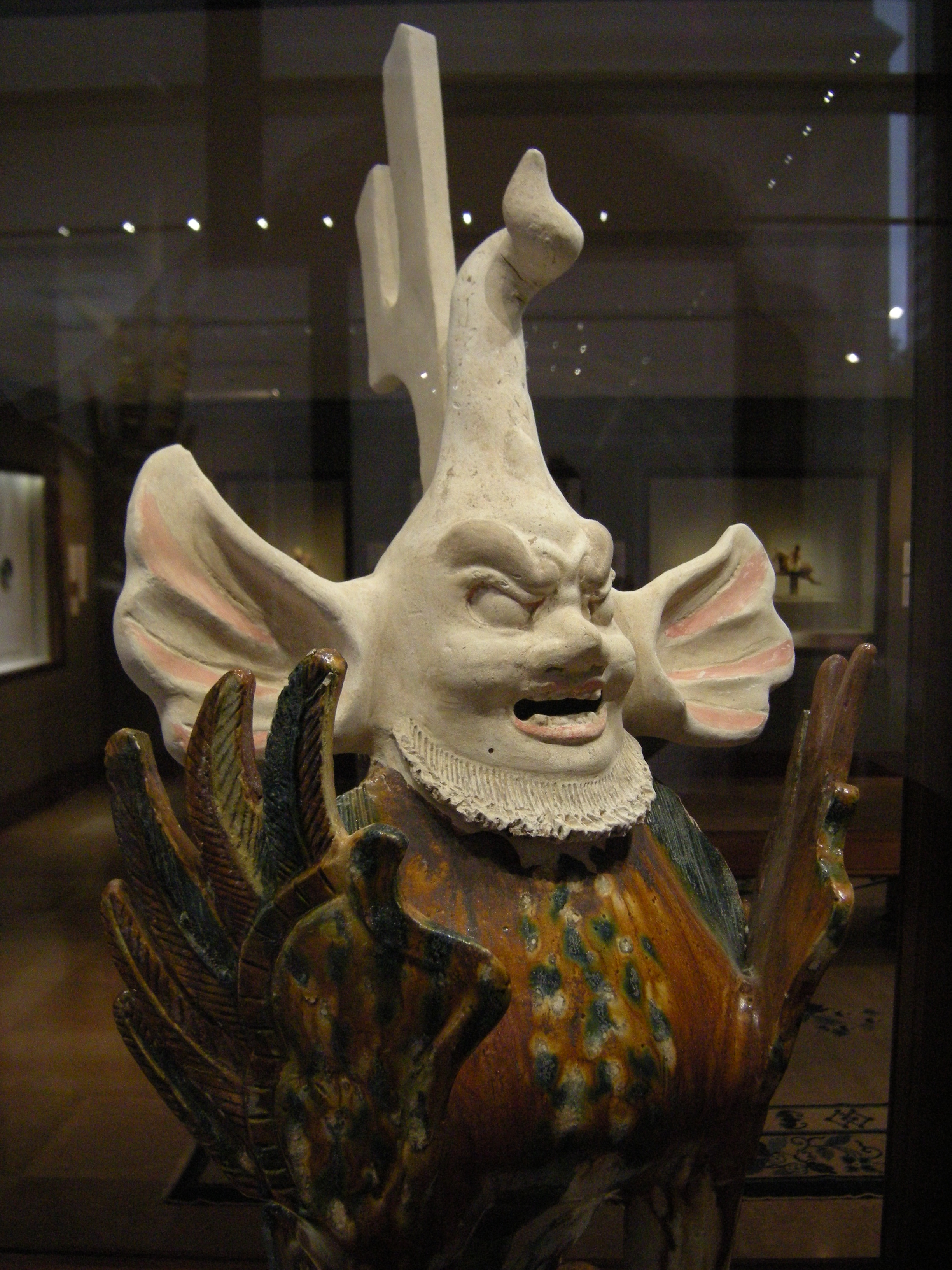 Tang Dynasty "Zhenmushou" (tomb guardian). Photographed in an exhibit of Chinese funerary art at the Trammell and Margaret Crow Collection of Asian Art, a museum in Dallas, Texas.